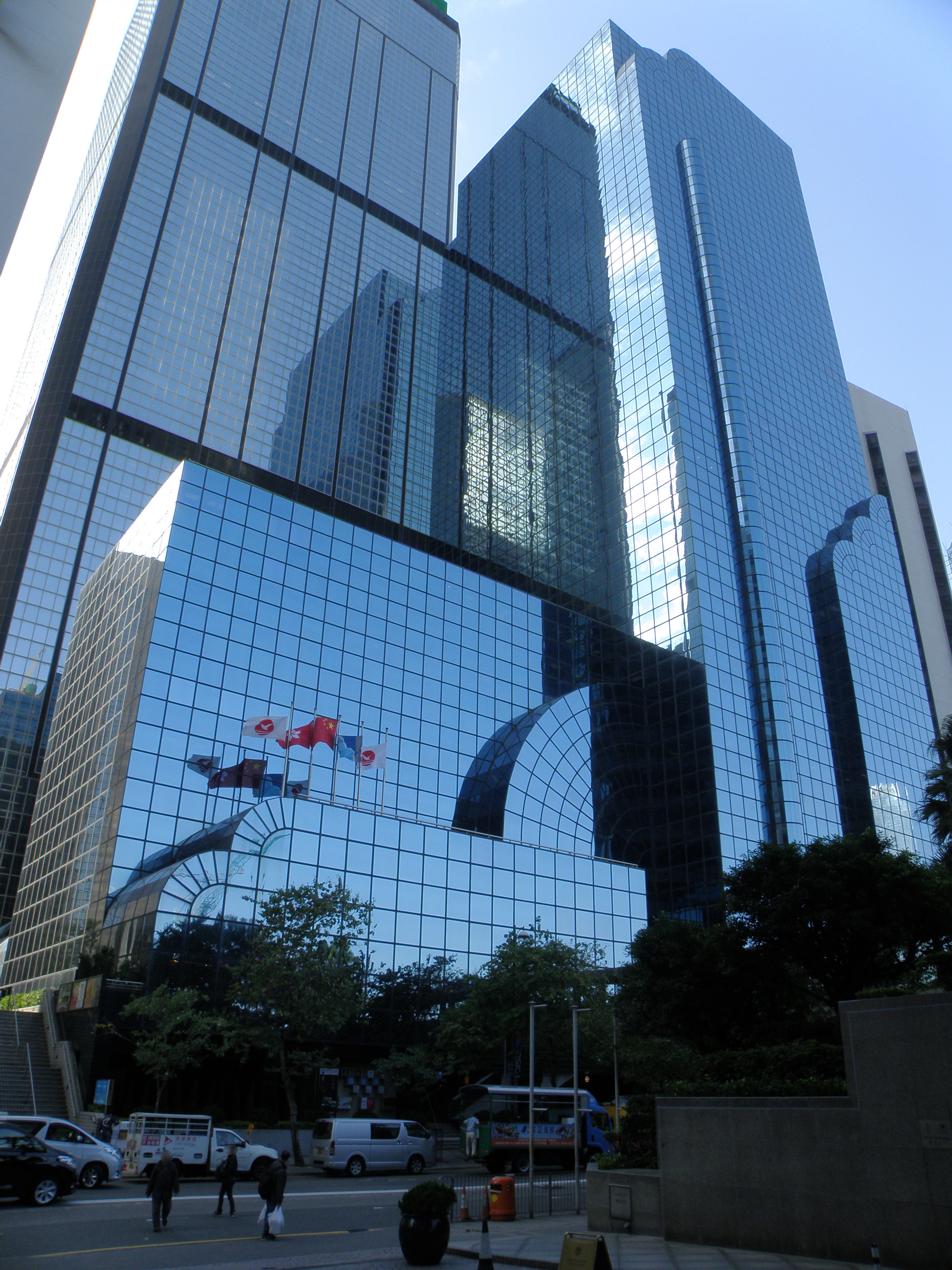 Shui On Centre in Wan Chai, Hong Kong.